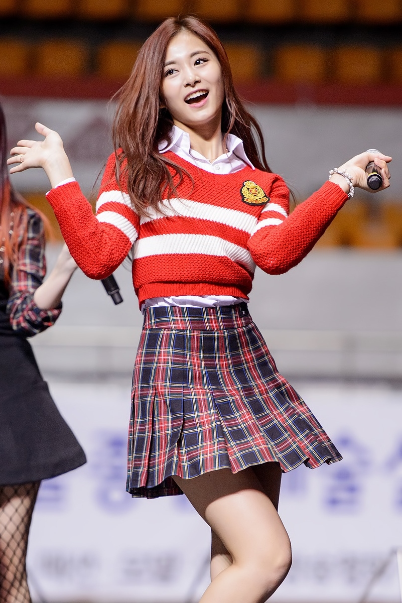 Chou Tzu-yu performing at Seoul Arts College on February 27, 2016.